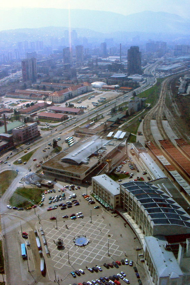 Sarajevo city view from the Avaz Tower cafe on floor 35 Sarajevo Train Station BiH in April 2011